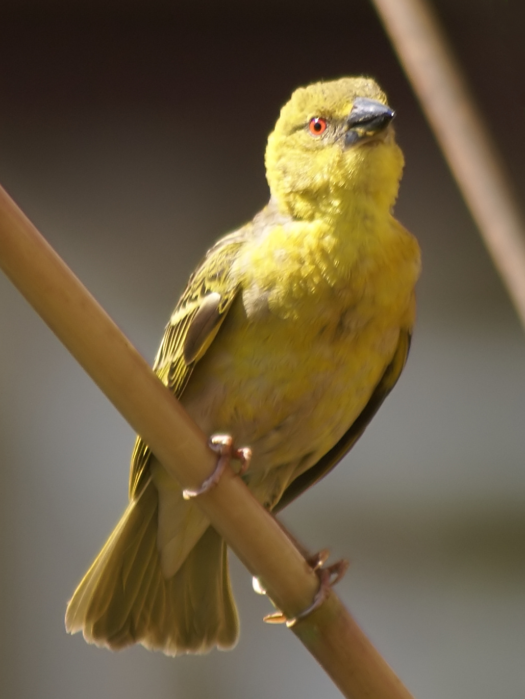 Female Layard's Weaver in Lusaka, Zambia.